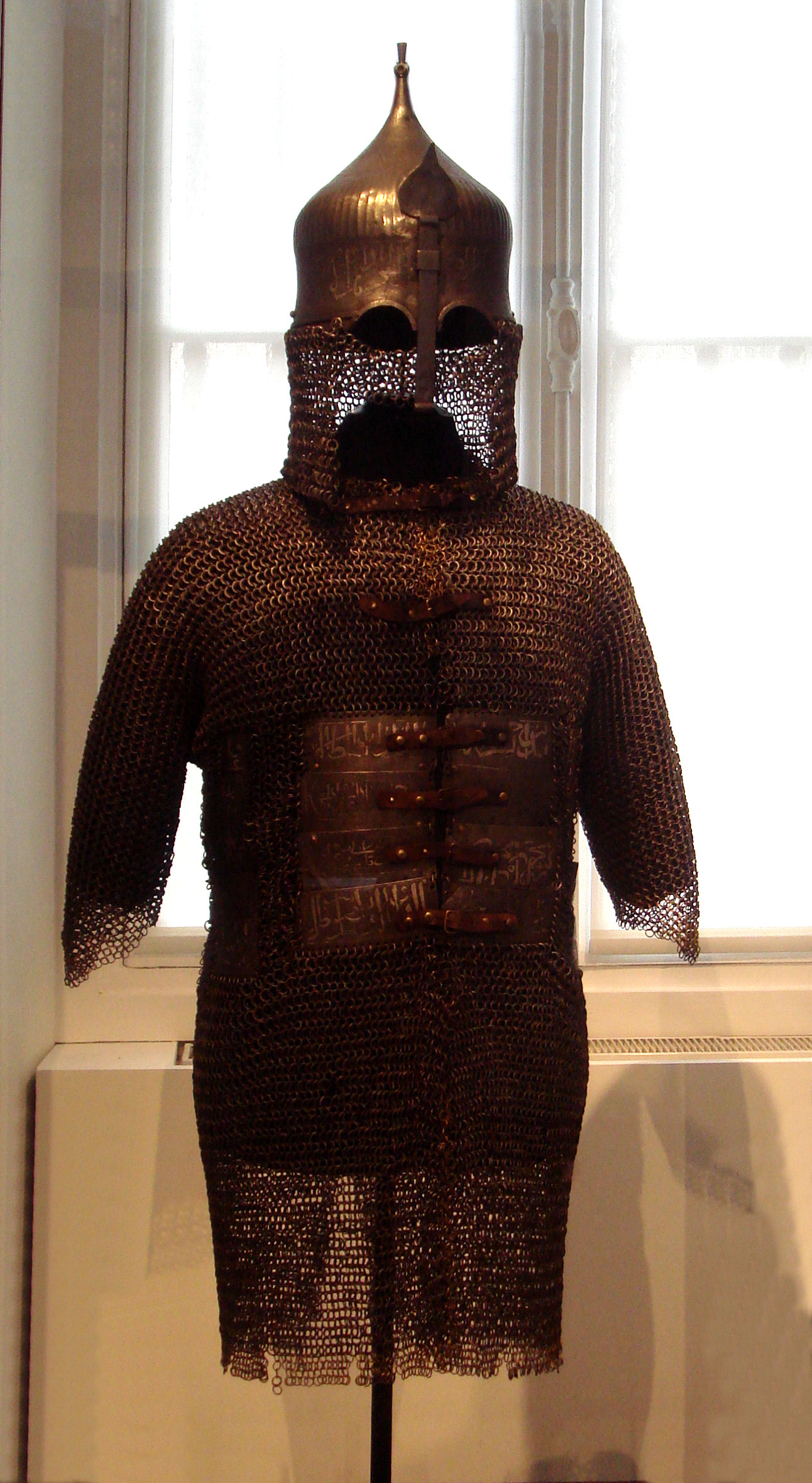 Armour of the Ottoman Empire, chainmail shirt with armor plates, (zirah baktar or zirh gomlek), 1480-1500.